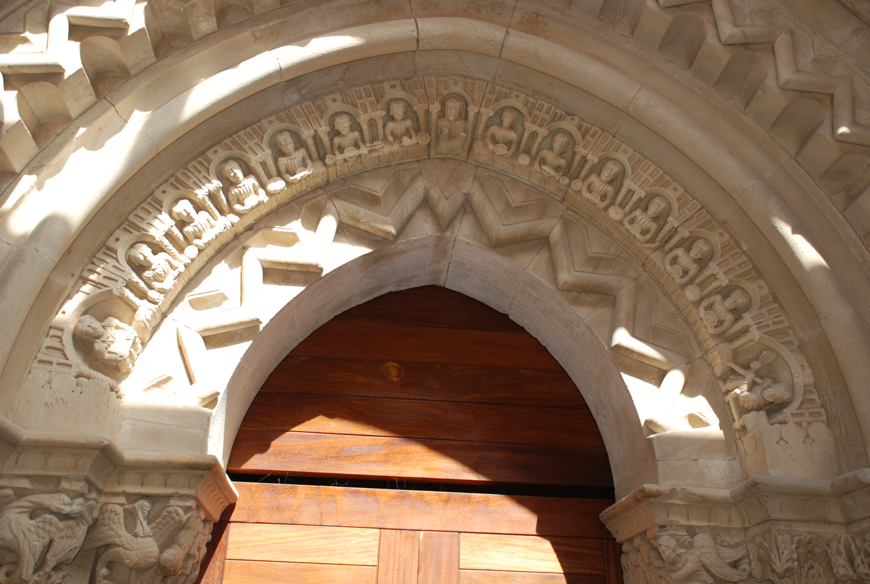 Romanesque portal of the church of San Cipriano in Revilla de Santullán (Palencia, Castile and León).